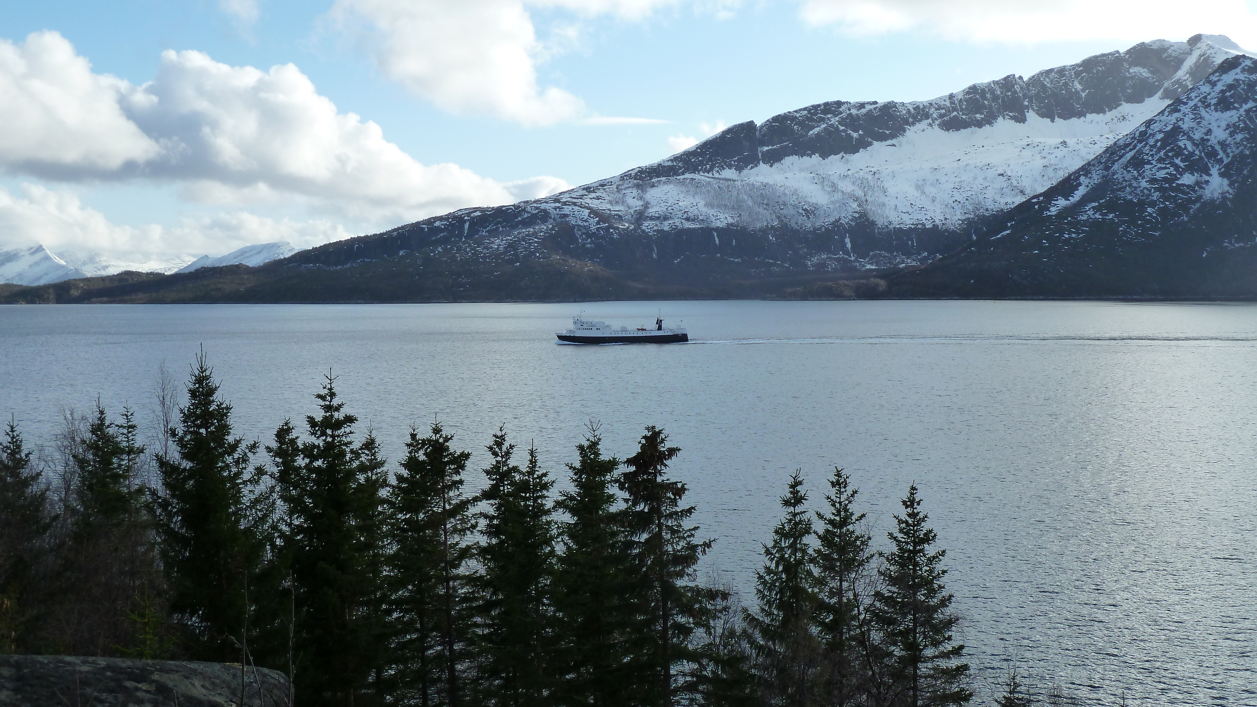 Carferry "Vågan" in Økssundet heading for Skutvik in Hamarøy, Norway.